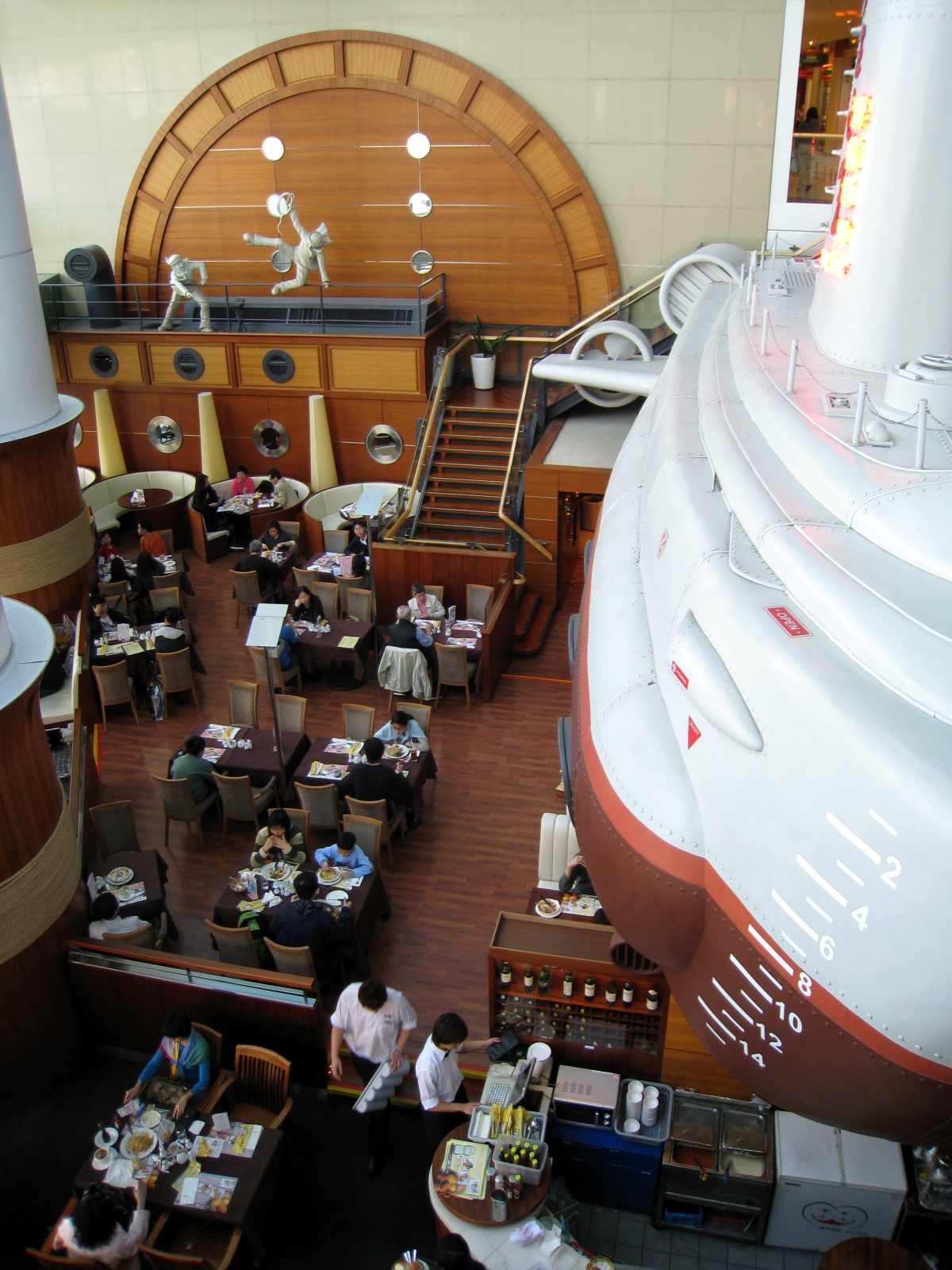 Steak Expert in Maritime Square